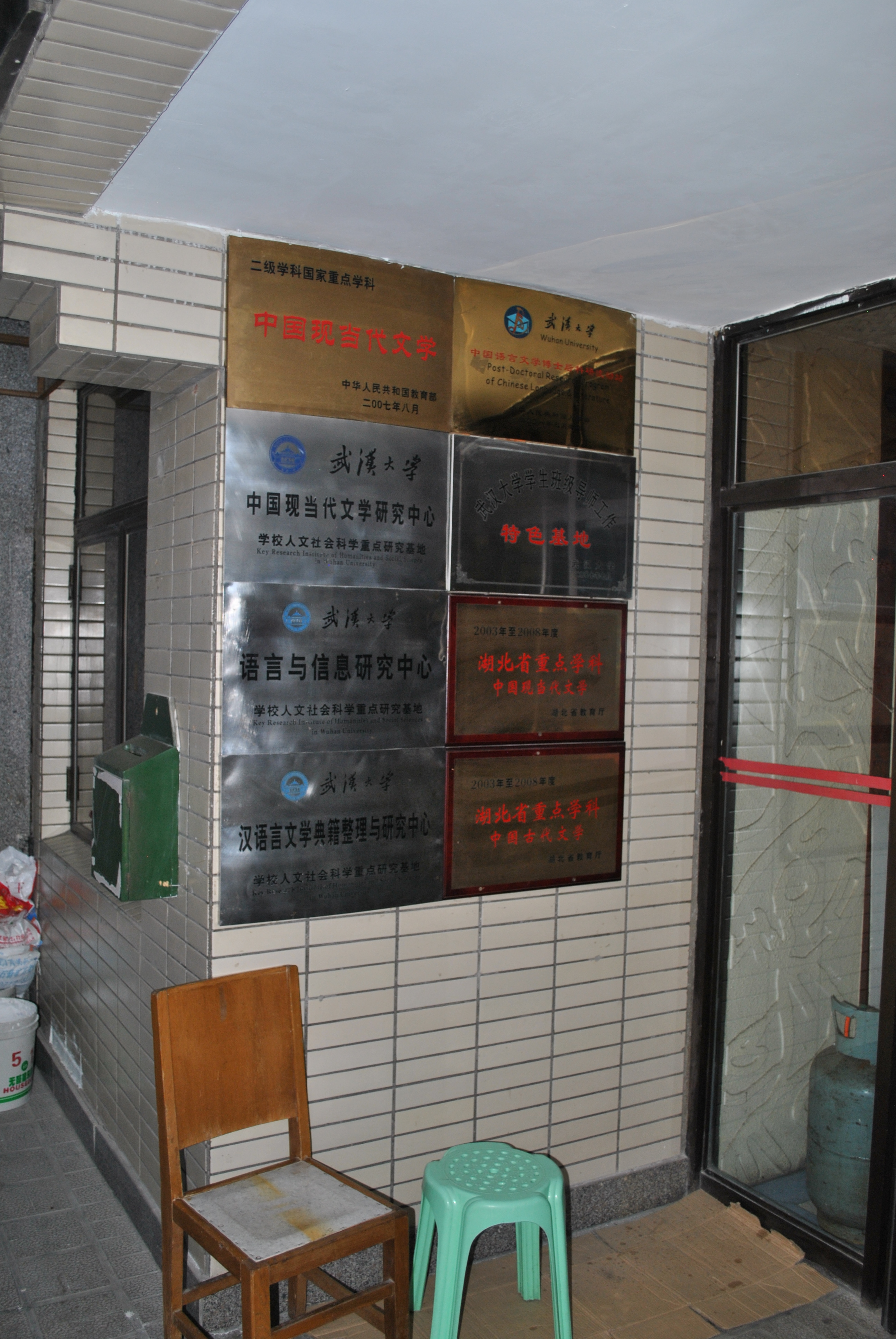 Wuhan University College of Chinese